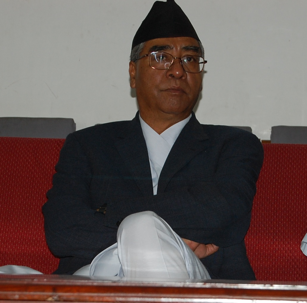 Former Primer Minister of Nepal, Ser Bahadur Deuba at book release program in Kathmandu